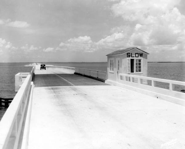 Looking down the Davis Causeway, Tampa, Florida.